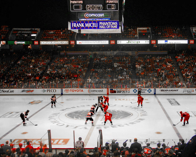 The AHL Philadelphia Phantoms during their thirteenth and final season at the Spectrum.